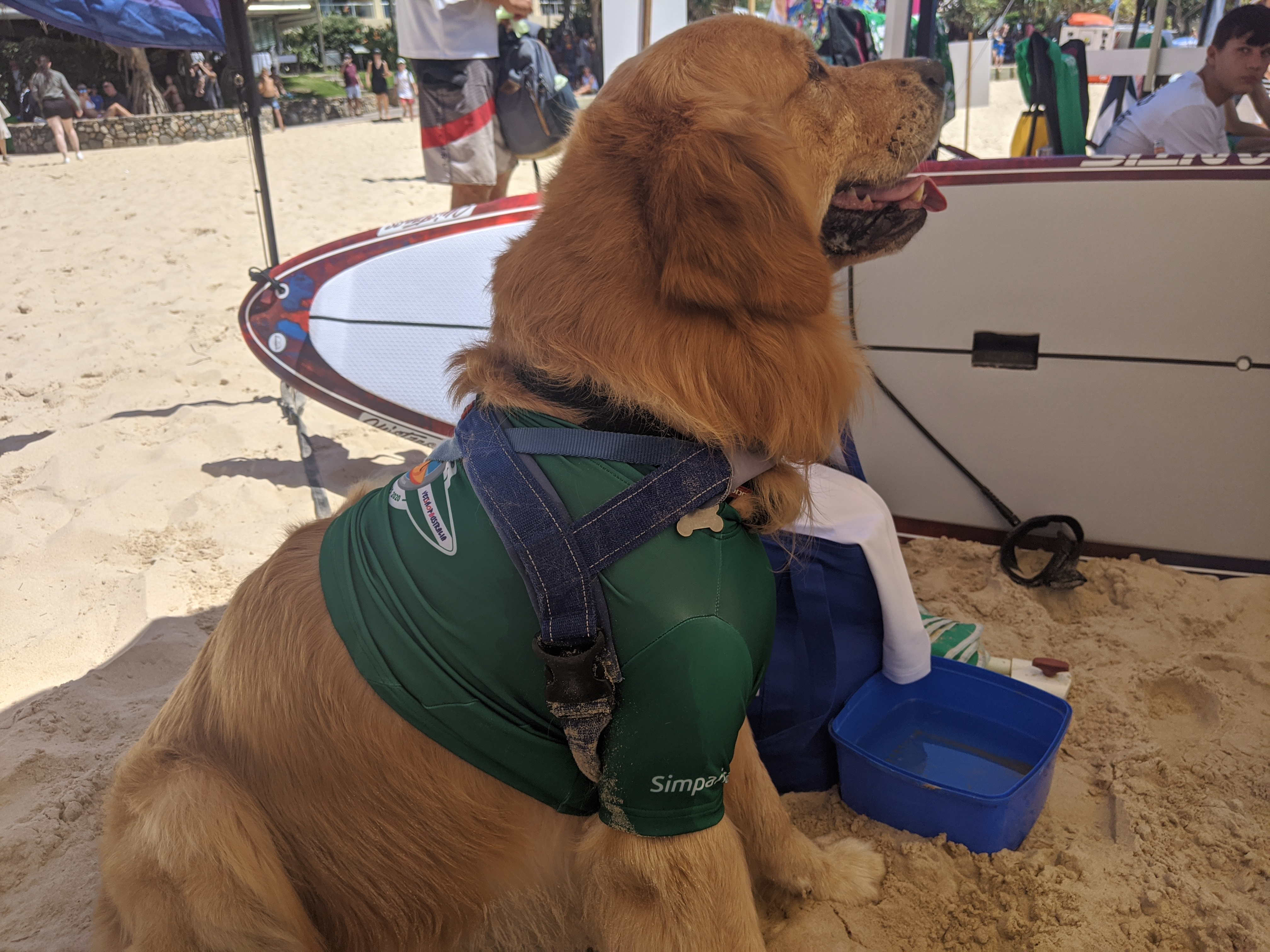 2020 Surfing Dog Championships for Dogs of All Sizes